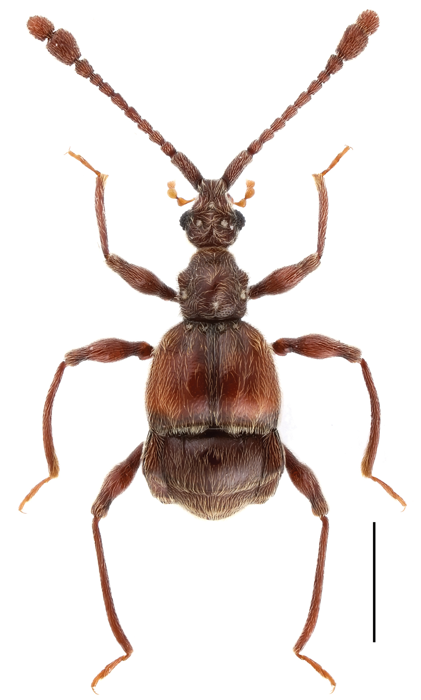 Habitus of Taiwanophodes minor. Scale: 1.0 mm.